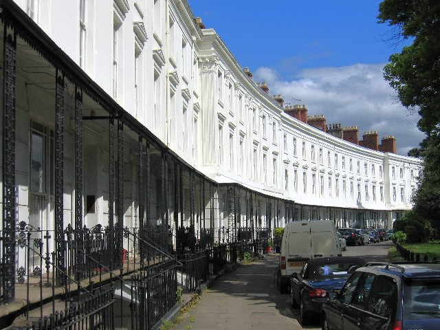 Lansdowne Crescent , Royal Leamington Spa This splendid example of Victorian neo-classical architecture on Willes Road was one of several buildings in Leamington Spa designed in the 1830s by William Thomas. Thomas subsequently emigrated to Canada and designed many outstanding public and ecclesiastical buildings as well as notable commercial and residential structures. For more information see 91016